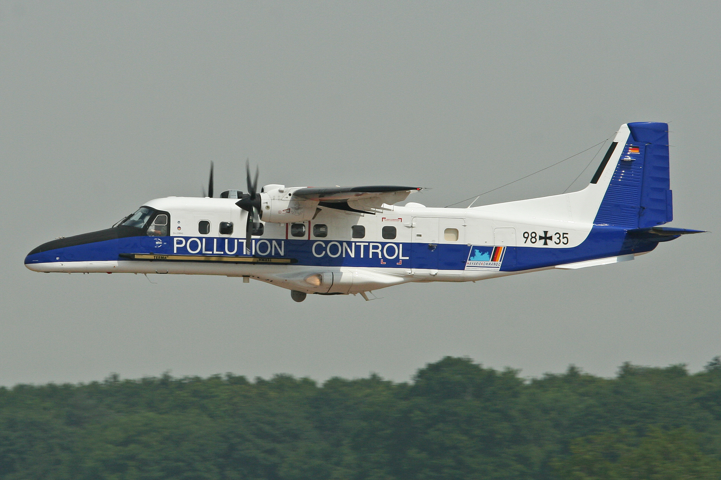 Operated by MFG-5, German Navy, in Pollution Control markings. It should eventually become '57+05'. c/n 8302. Seen departing the 2013 RIAT at Fairford. 22-7-2013